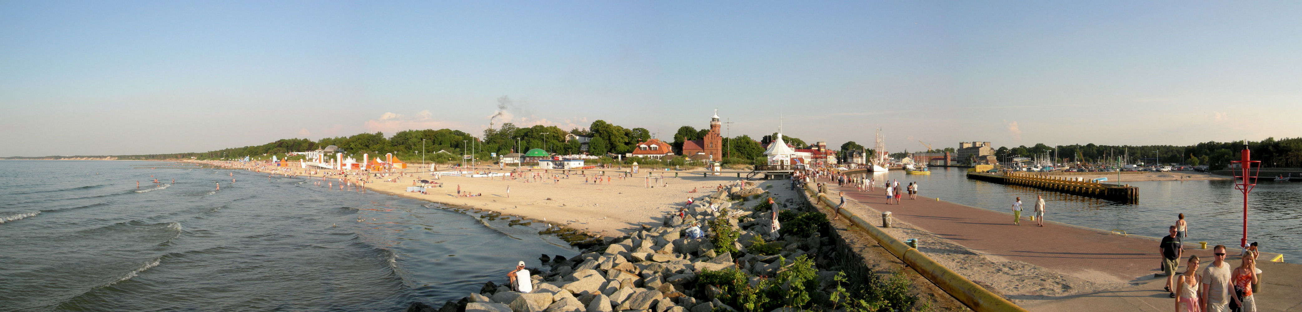 Panoramic view of beach and port, Ustka, Poland